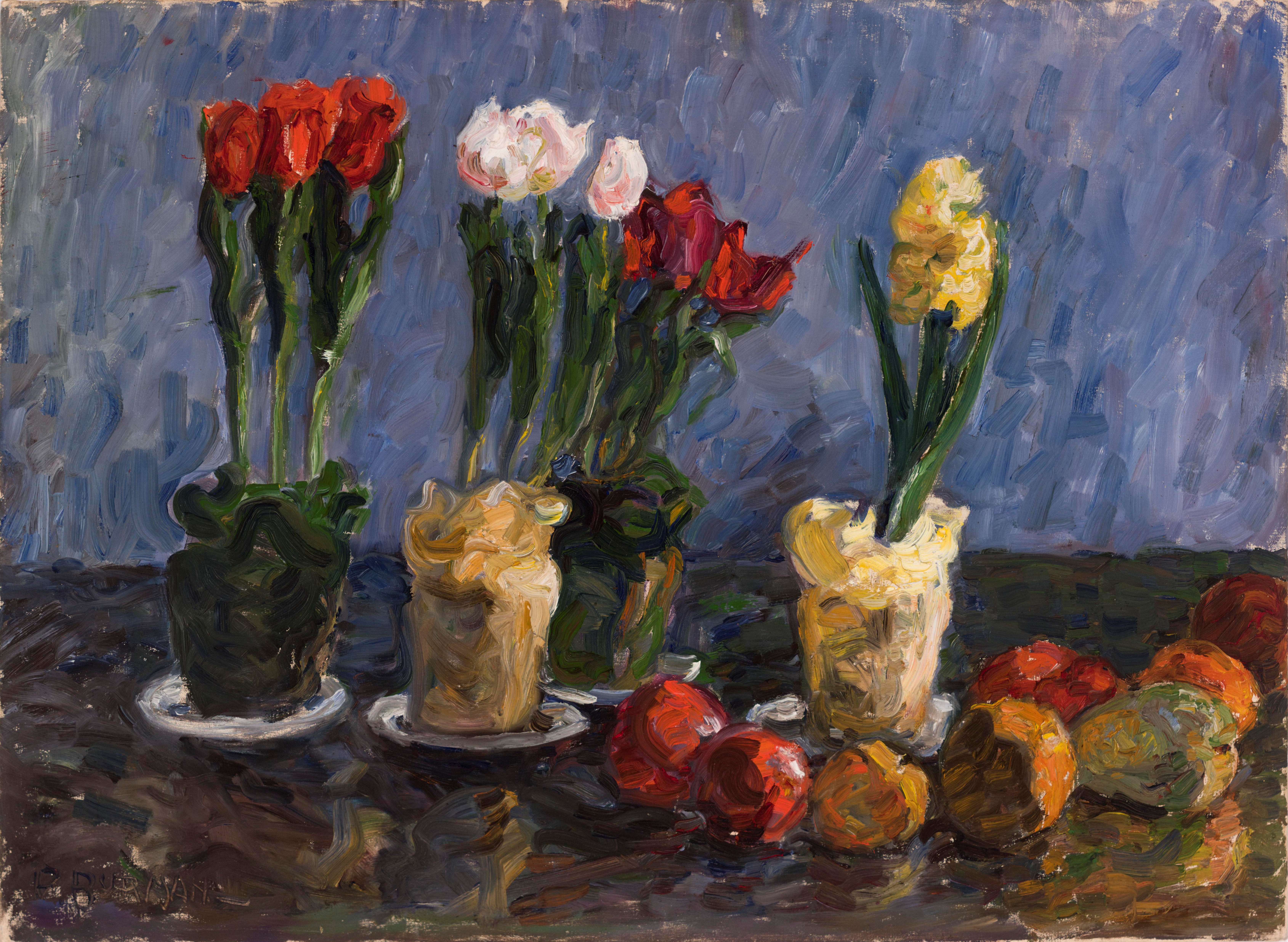 Paul Burman. Still Life (Flowers). 1916. Oil. Tartu Art Museum.